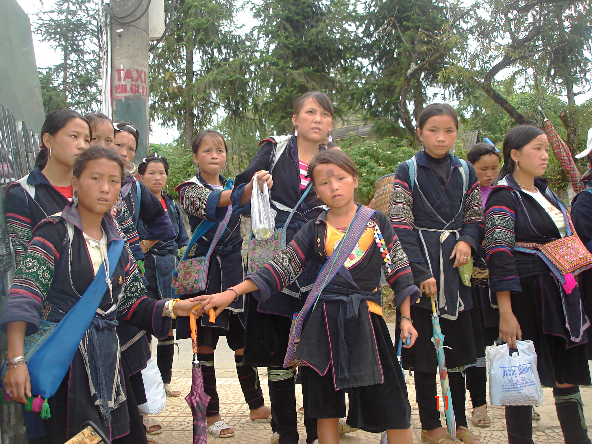 Black Hmong in Sa Pa, Vietnam